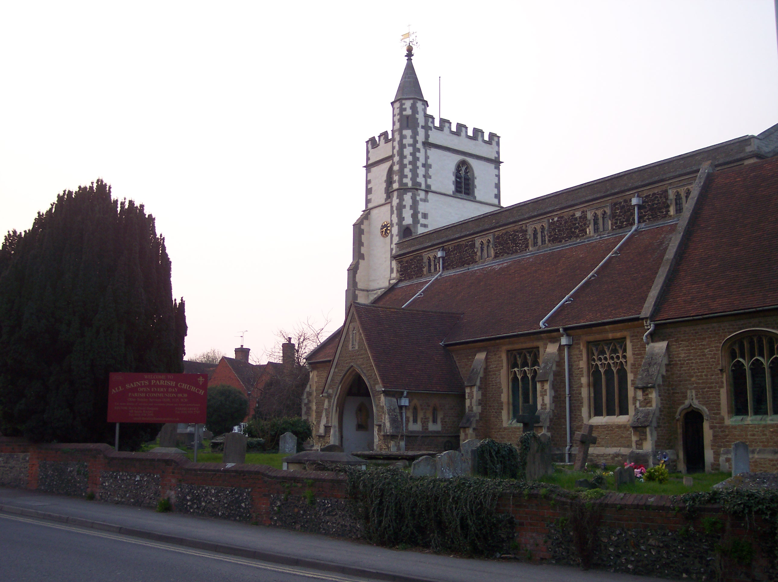 All Saints Parish Church, Wokingham, Berkshire, England